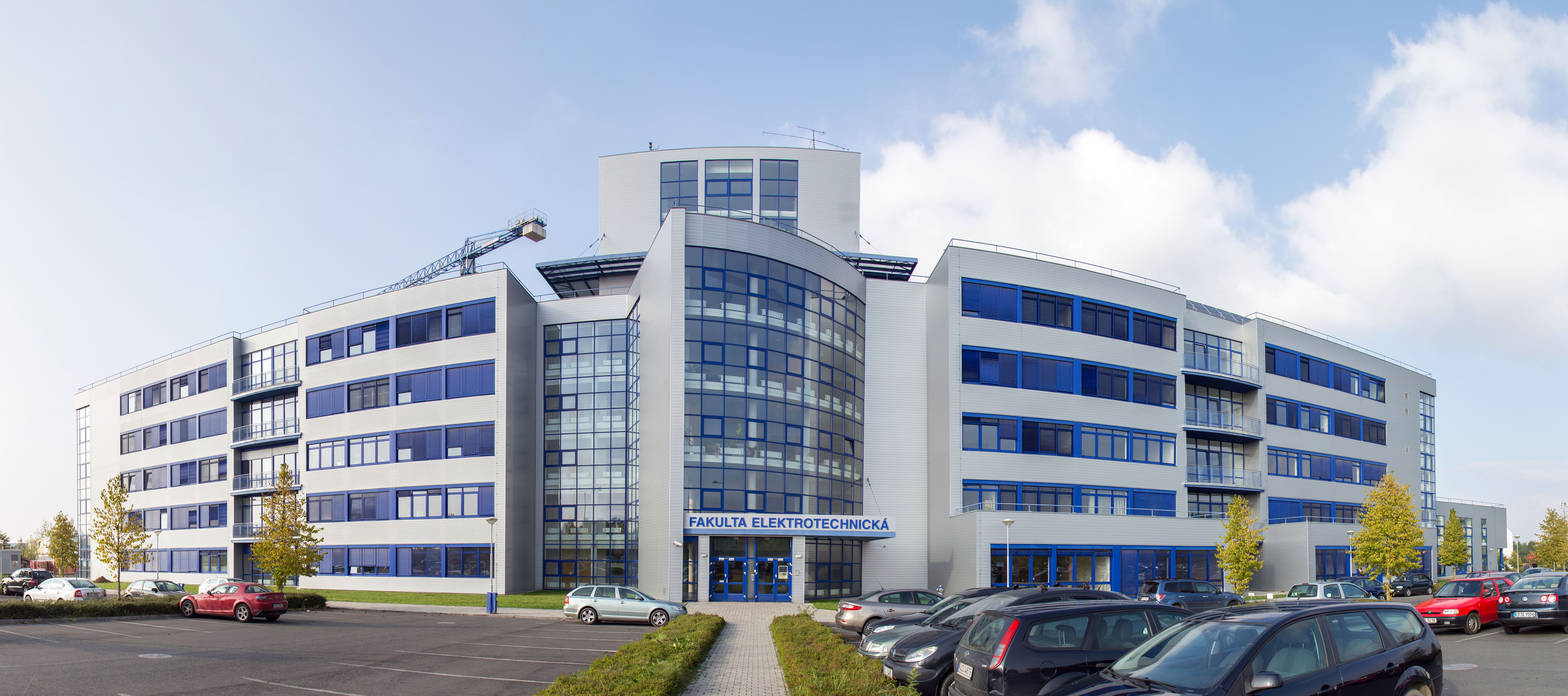 Building of Faculty of Electrical Engineering - University of West Bohemia, Pilsen, Czech republic